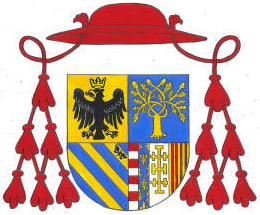 Coat of arms of Cardinal della Rovere (16th Century)